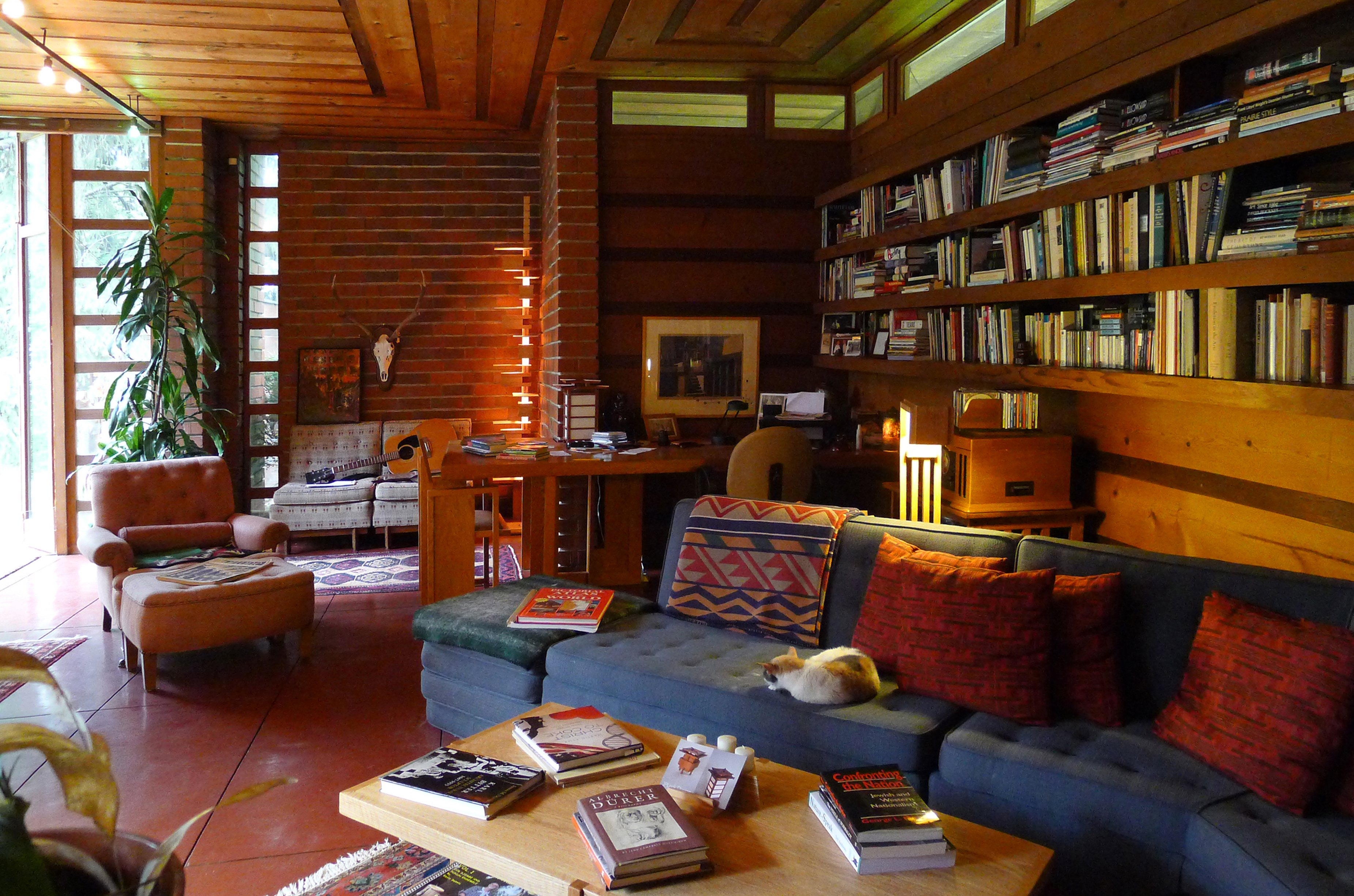 Living room of the Herbert and Katherine Jacobs First House, commonly referred to as Jacobs I. This is a single family home located at 441 Toepfer Avenue in Madison, Wisconsin. Designed by noted American architect Frank Lloyd Wright, it was constructed in 1937 and is generally considered to be the first Usonian home.